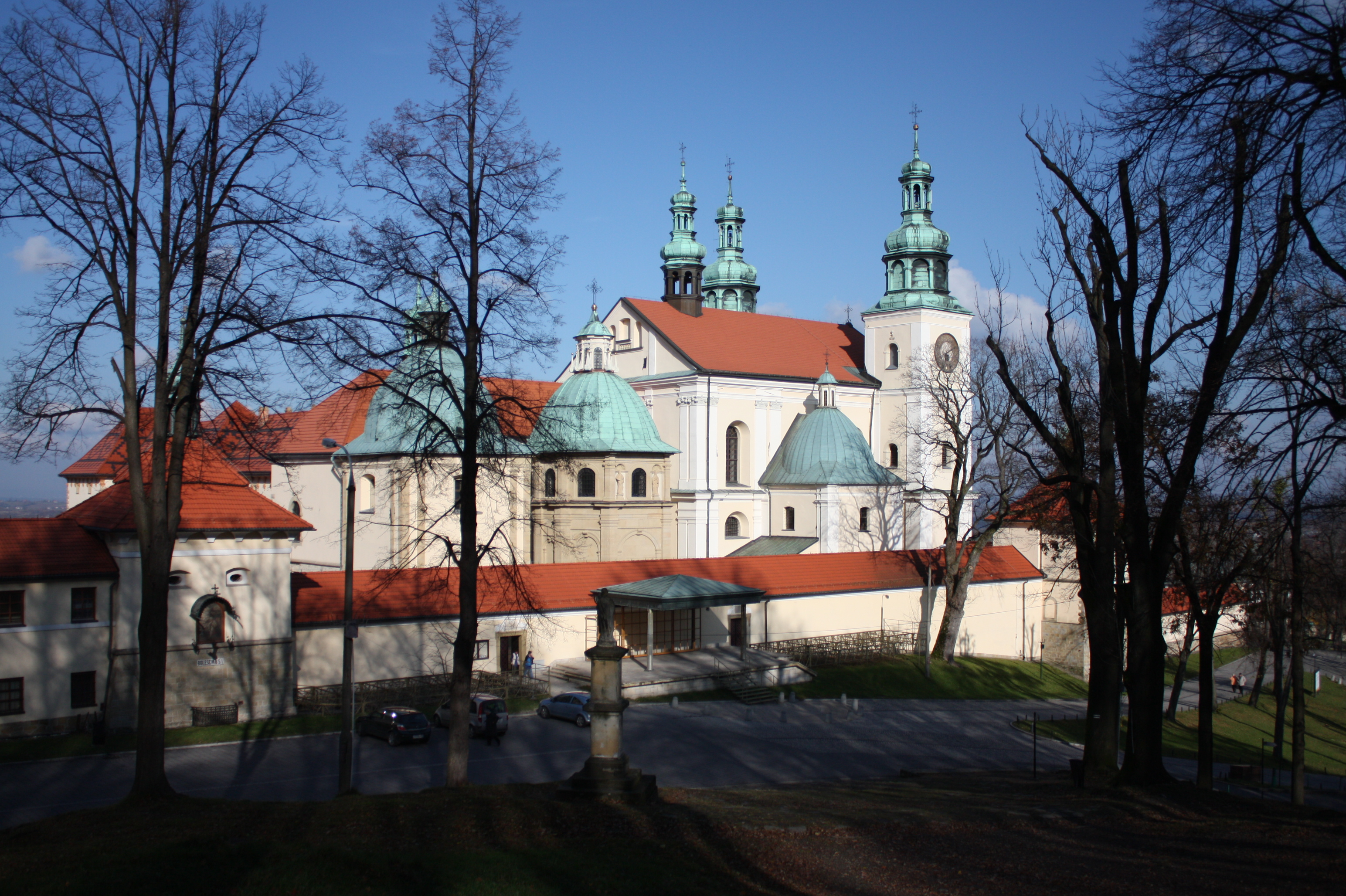 Basilica of St. Mary in Kalwaria Zebrzydowska